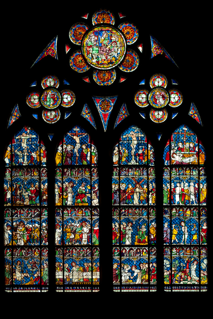 Glass window, south side. Scenes from the Passion.